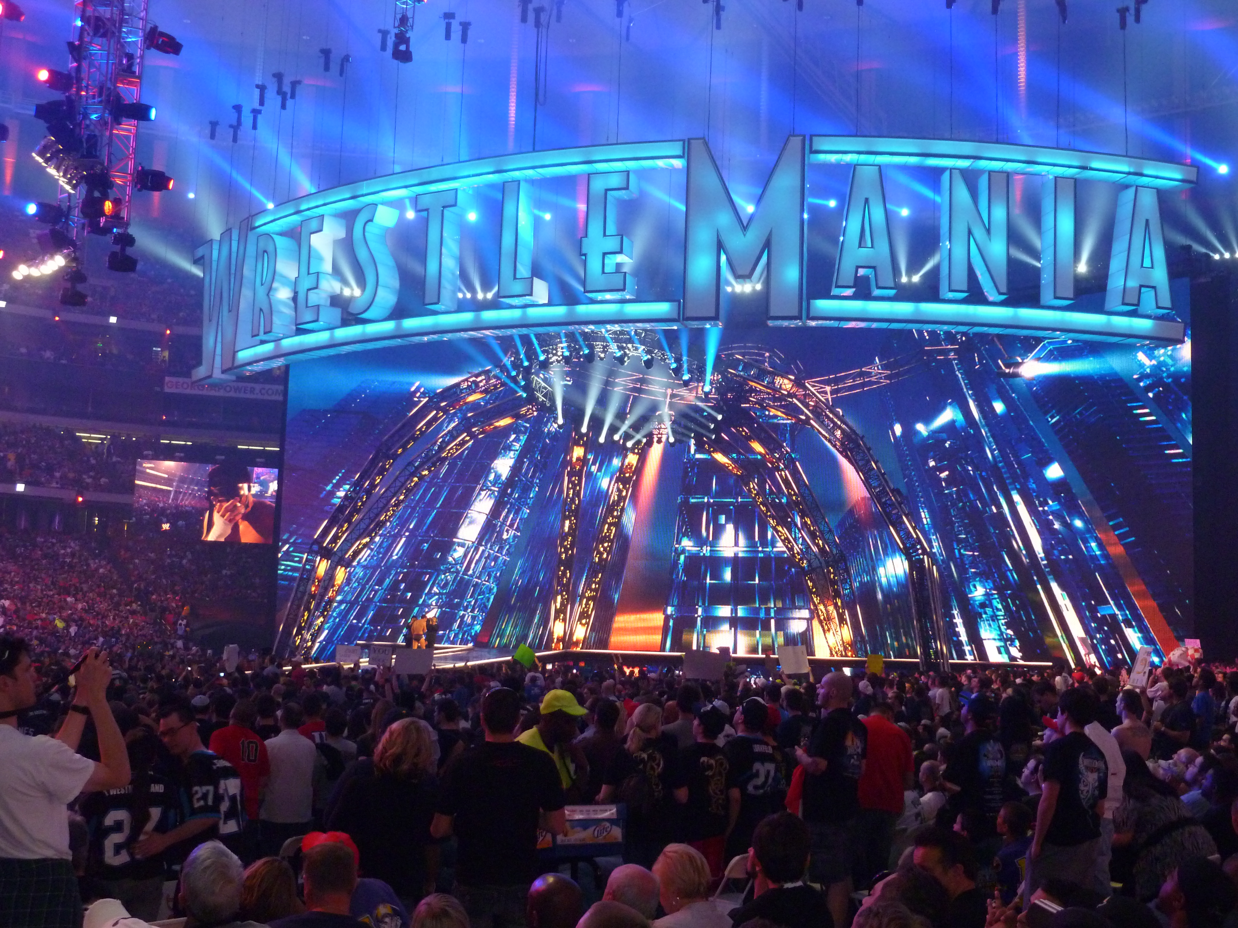 Wrestlemania XXVII Stage